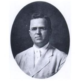 photo of Wesley Harrington Ketcham, american physician and business associate of psychic Edgar Cayce. image from 1922